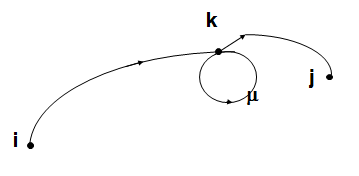 Bellman 1